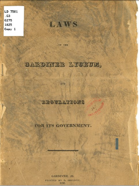 Gardiner Lyceum school Laws and Regulations of 1825, page 1